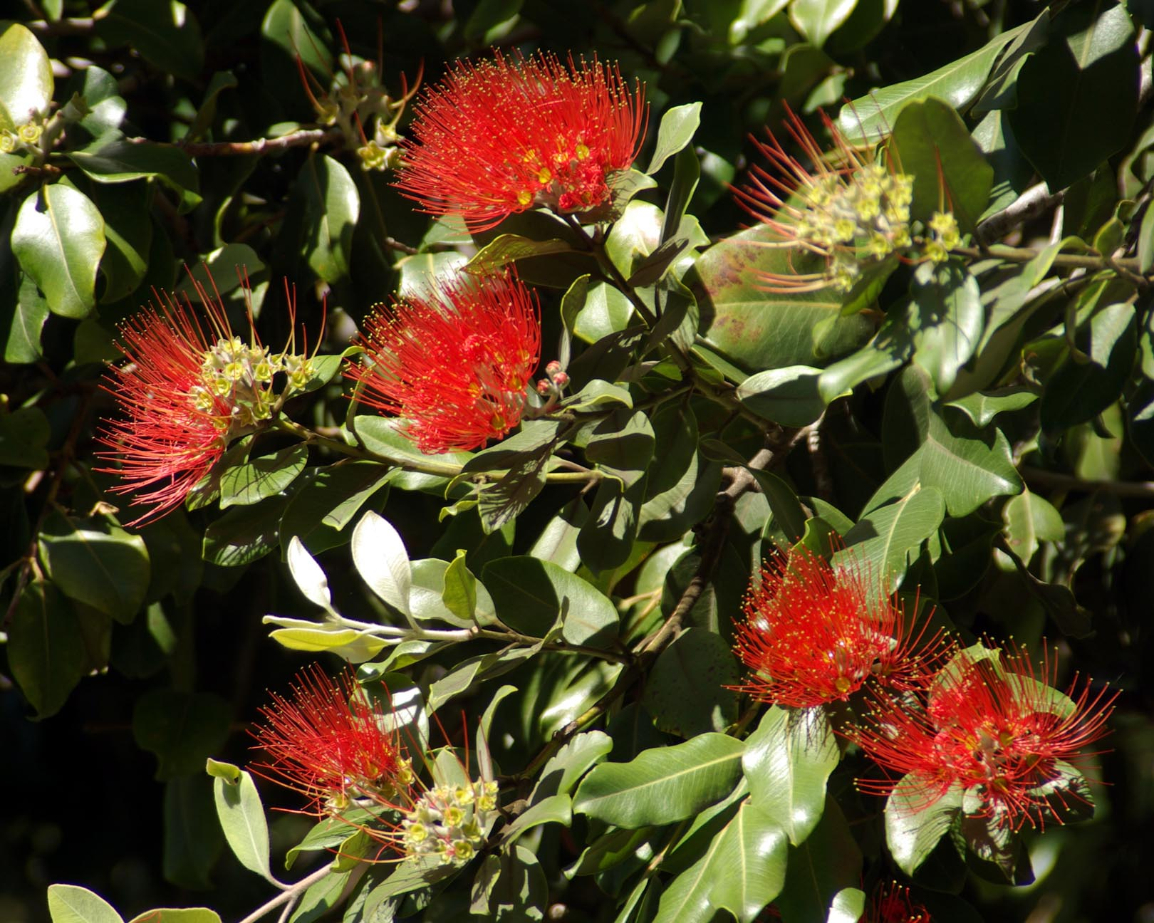 Metrosideros collina flowering in the Royal Tasmanian Botanic garden , Hobart